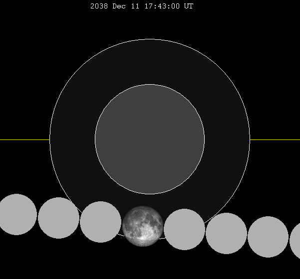 December 2038 lunar eclipse chart of moon's path through the earth's shadow. thumb